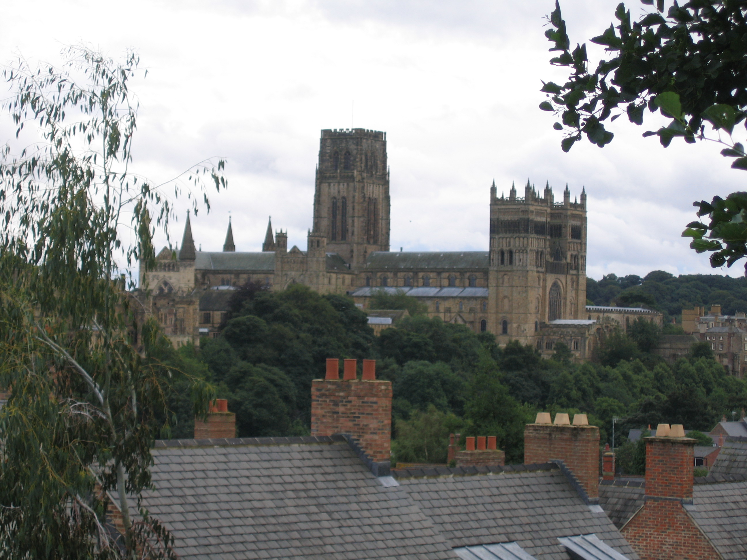 Durham Cathedral from Rly. Station